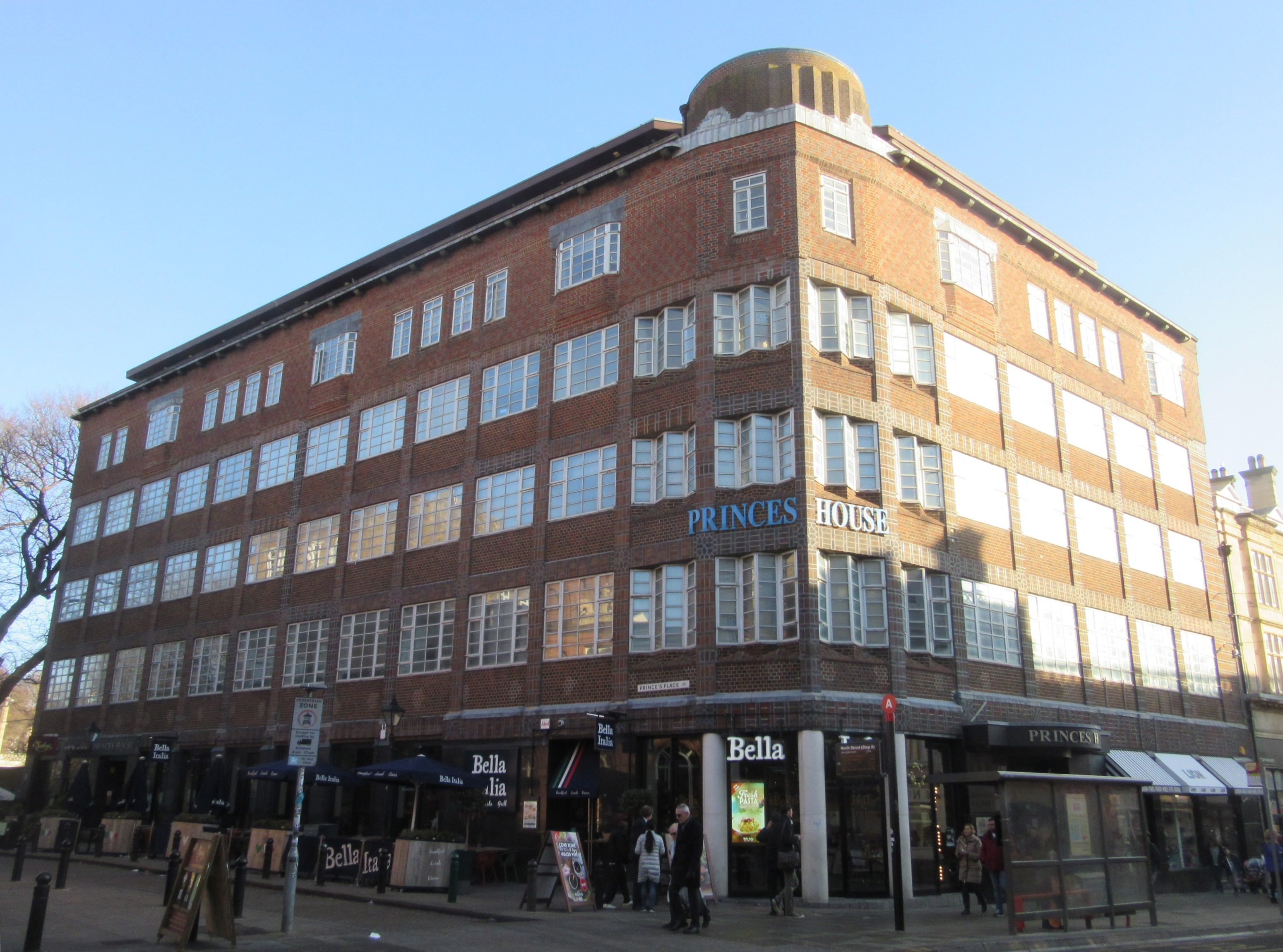 Princes House, 166–169 North Street, Brighton, City of Brighton and Hove, England. Built in 1935–36 to the design of Harry Stuart Goodhart-Rendel for the Brighton & Sussex Building Society. Now in mixed commercial and residential use. A Grade II-listed building.